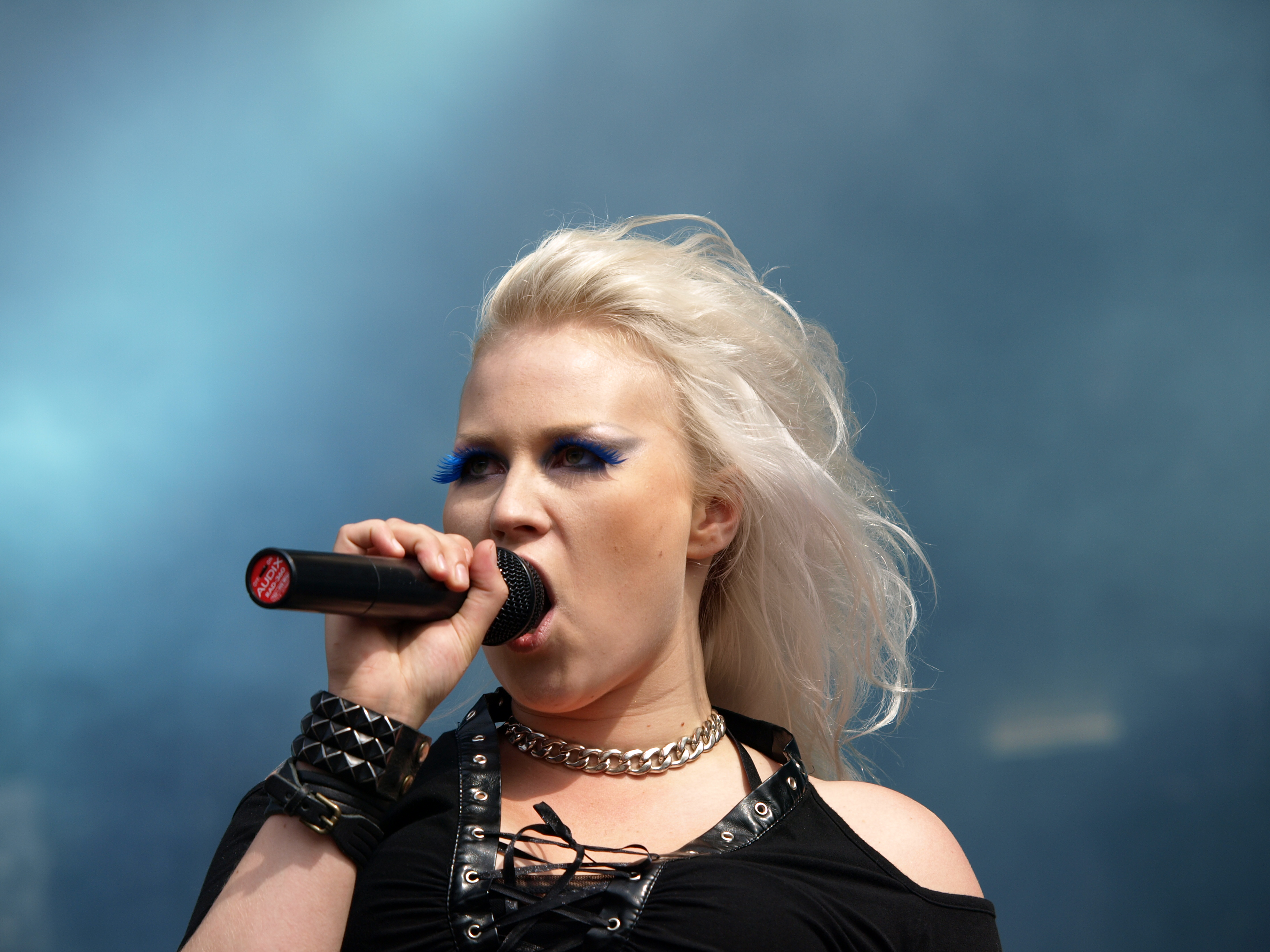 Finnish band Battle Beast at Tuska Open Air 2013